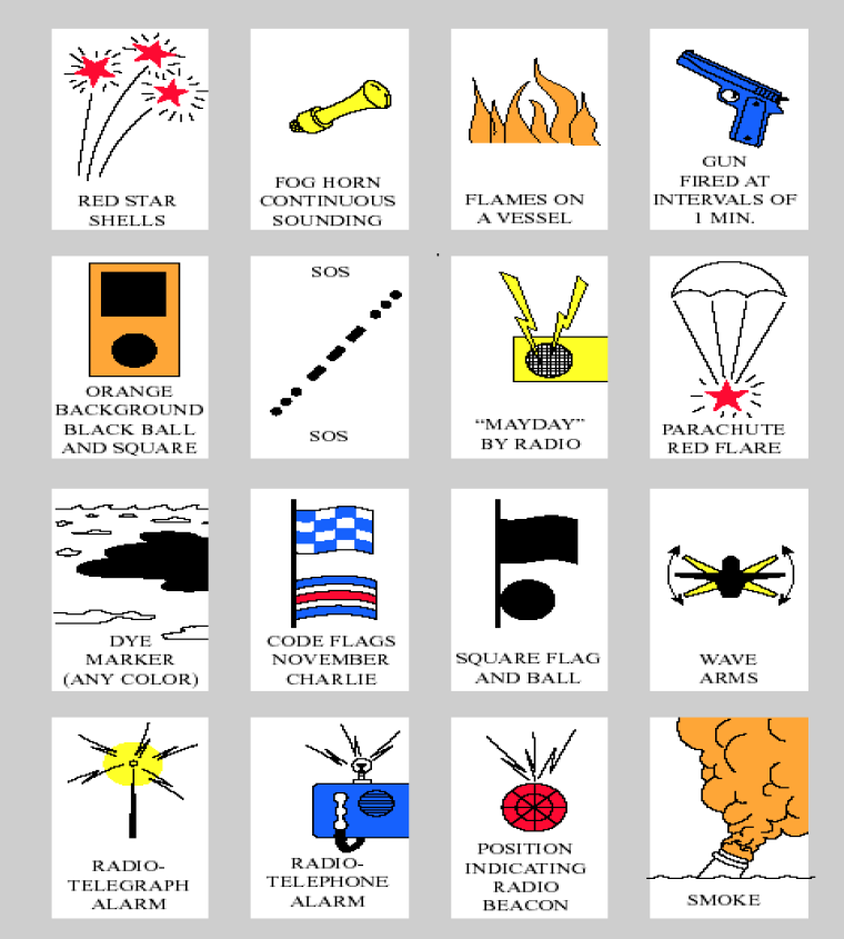 Grid of 16 different pictograms describing audible and visual distress signals.